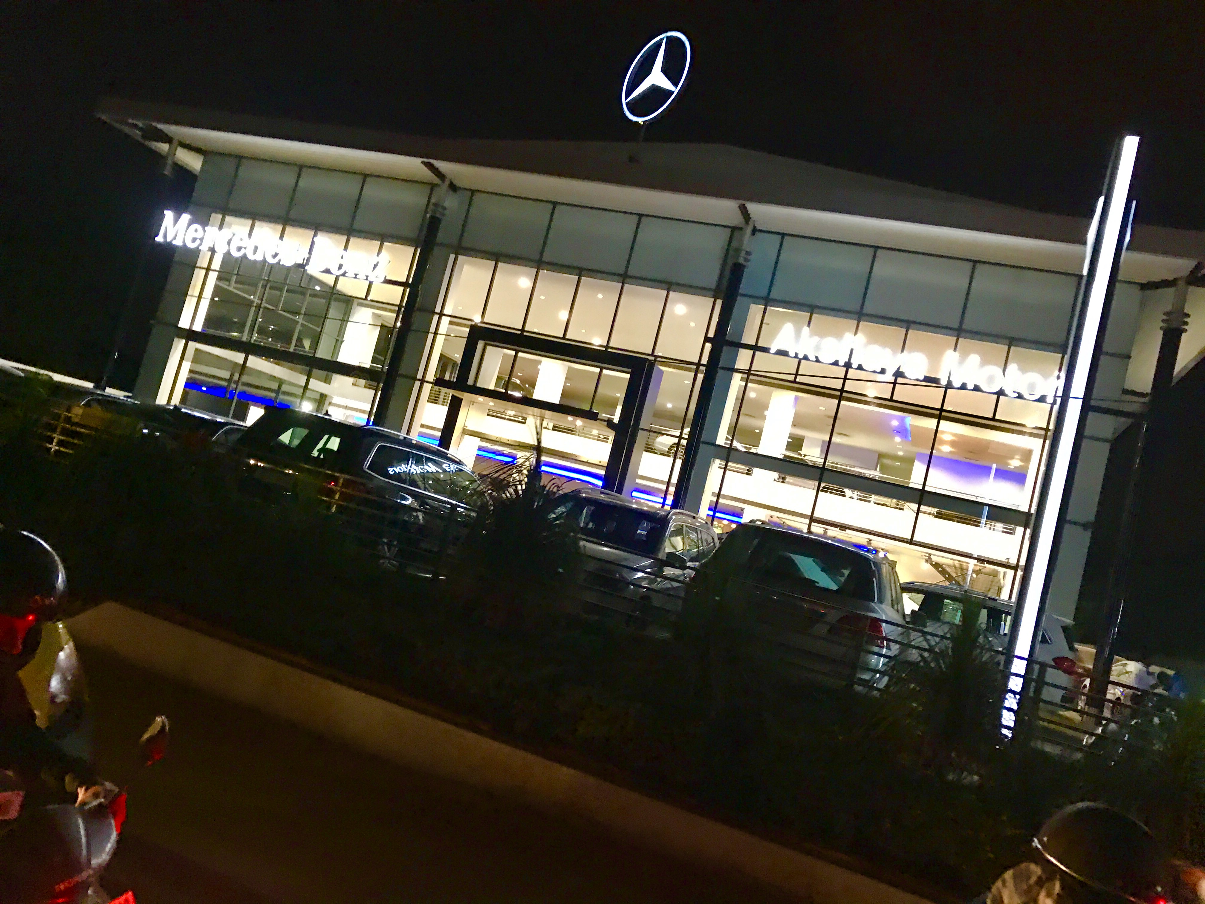 Car showroom in Banglore Mysuru road